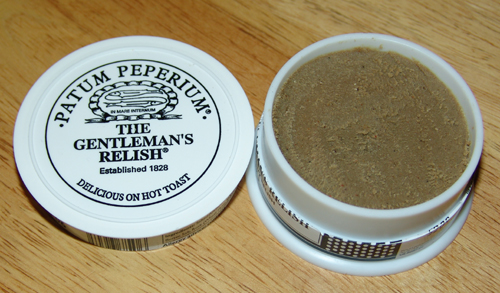 I, User:Dabbler, created this image. It is an open pot of Patum Peperium also known as The Gentleman's Relish.